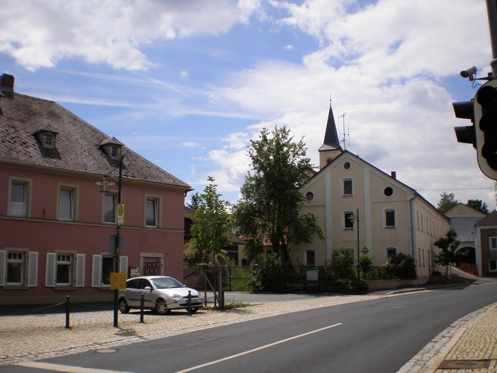 Schirnding, Bavaria, Germany Česky: Schirnding, Bavorsko, Německo